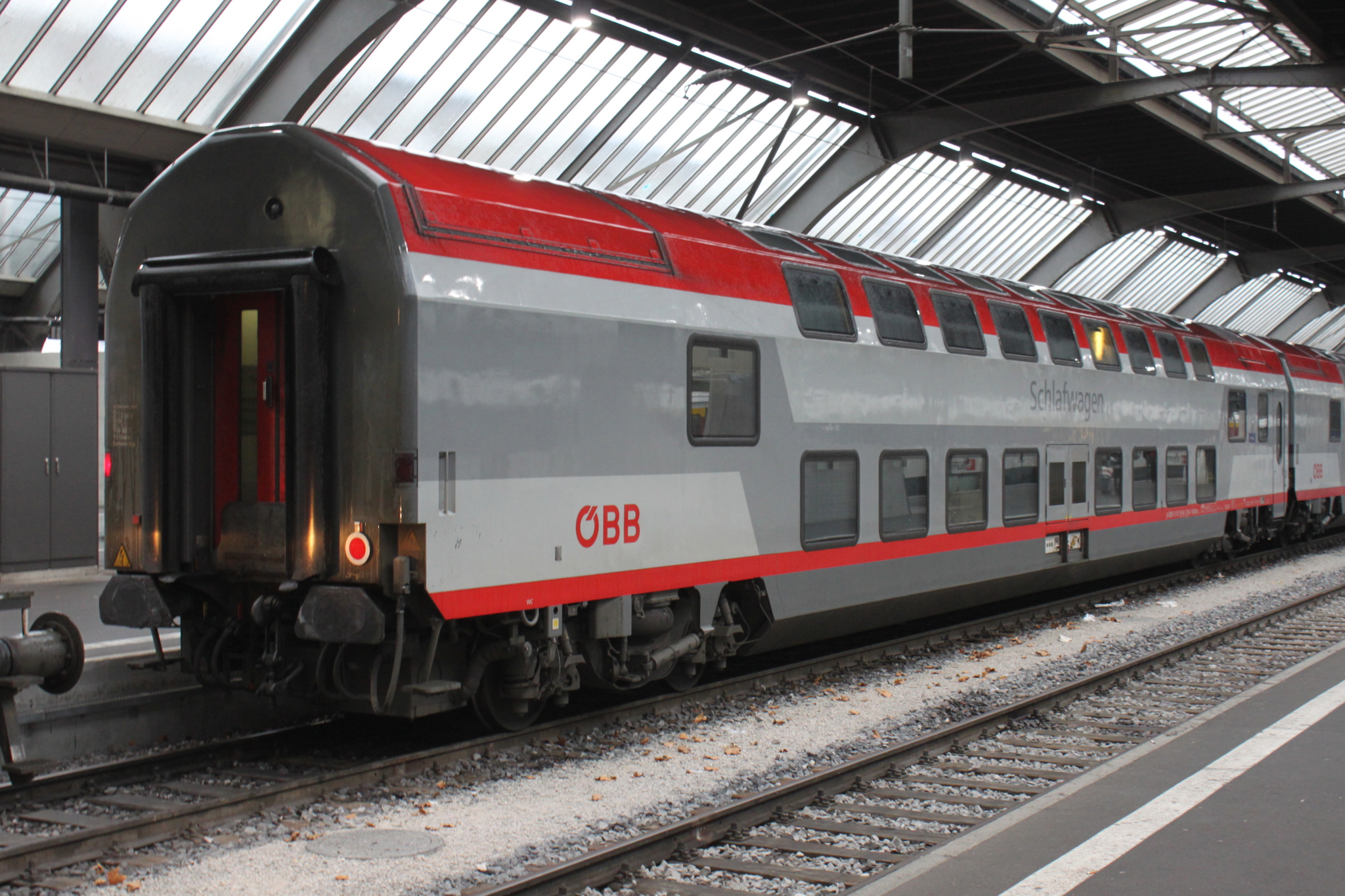 ÖBB WLBmz 61 81 76-94 219-0 at Zürich HB in the consist of EuroNight 466 "Wiener Walzer" from Wien Westbf.